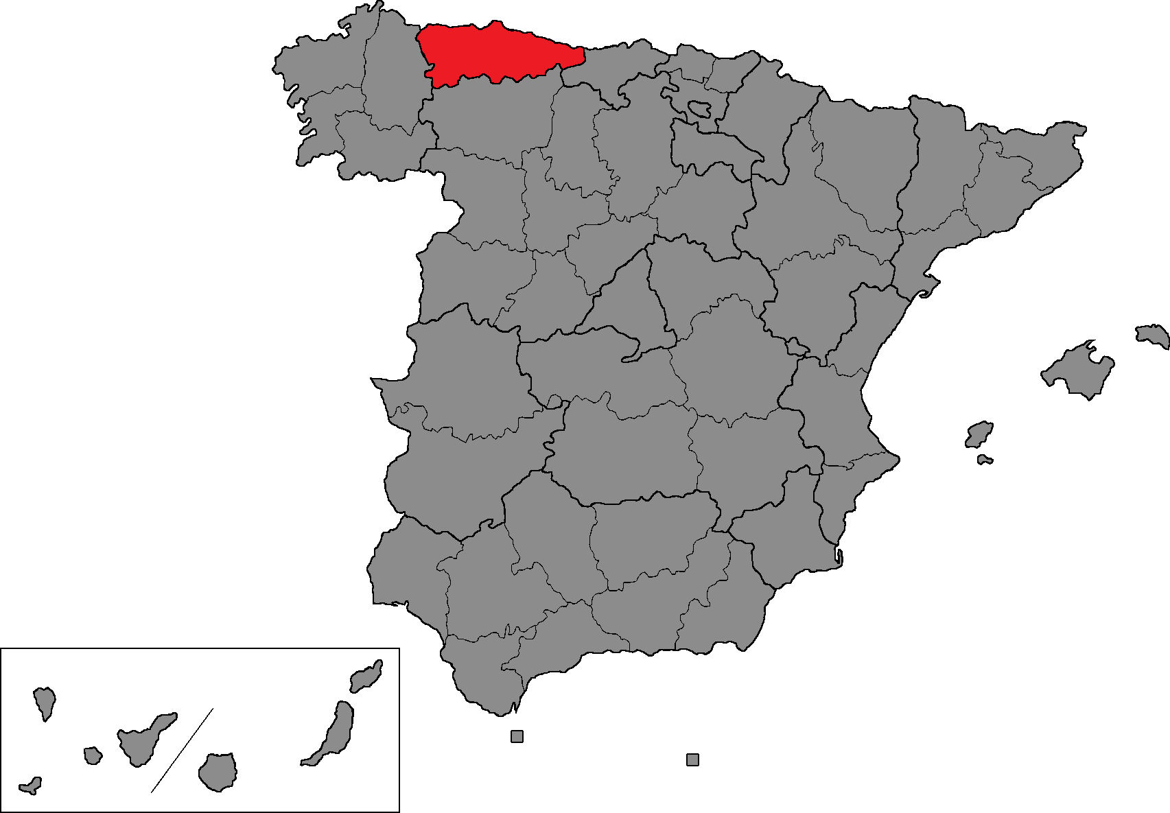 Spanish Congress of Deputies district of Asturias.